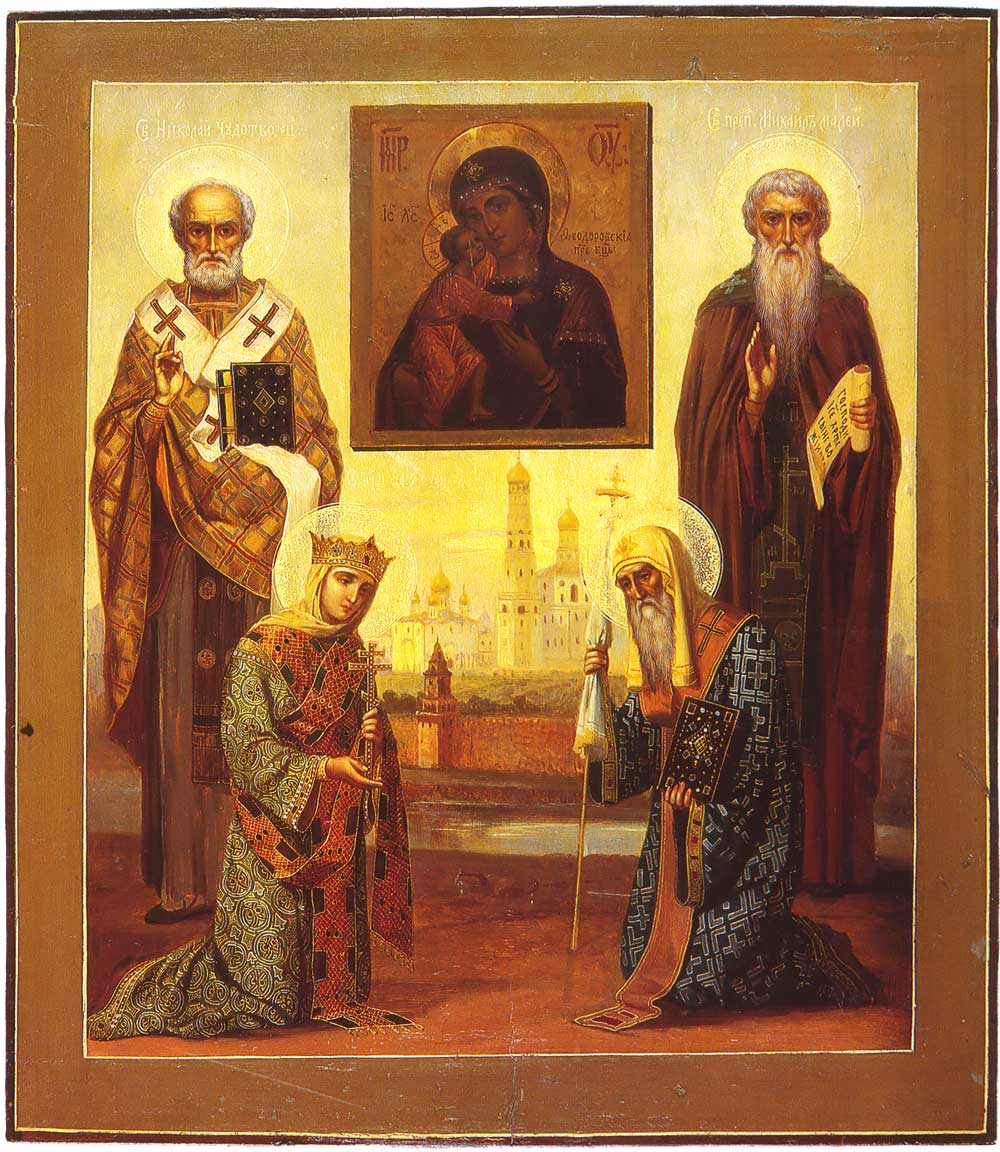 Feodorovskaya with saints